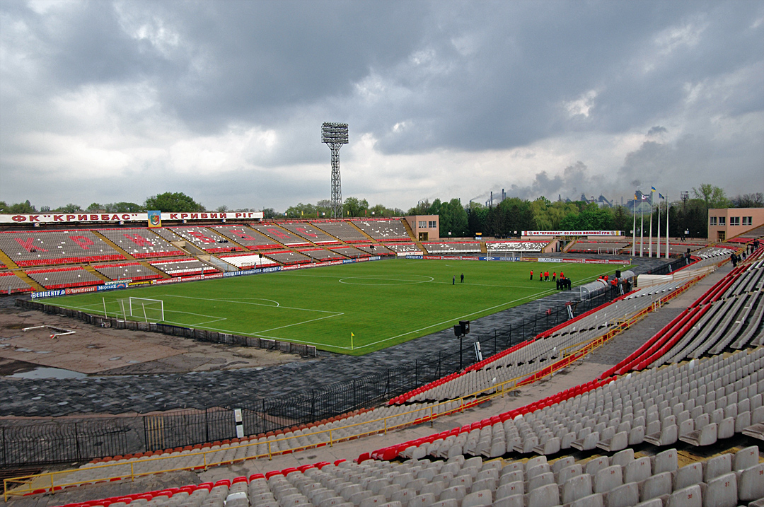 Metalurh Stadium in Kryvyi Rih, Dnipropetrovsk Oblast, Ukraine